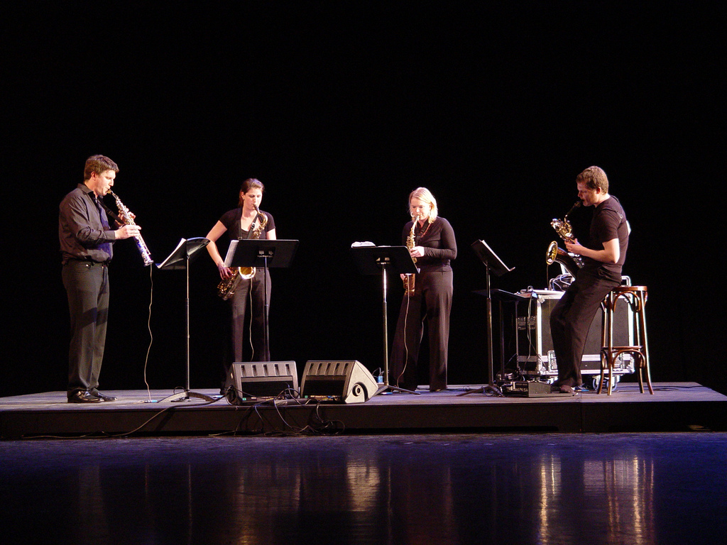 Python Saxophone Quartet opening the 2008 Heiner Goebbels Festival in The Hague, The Netherlands